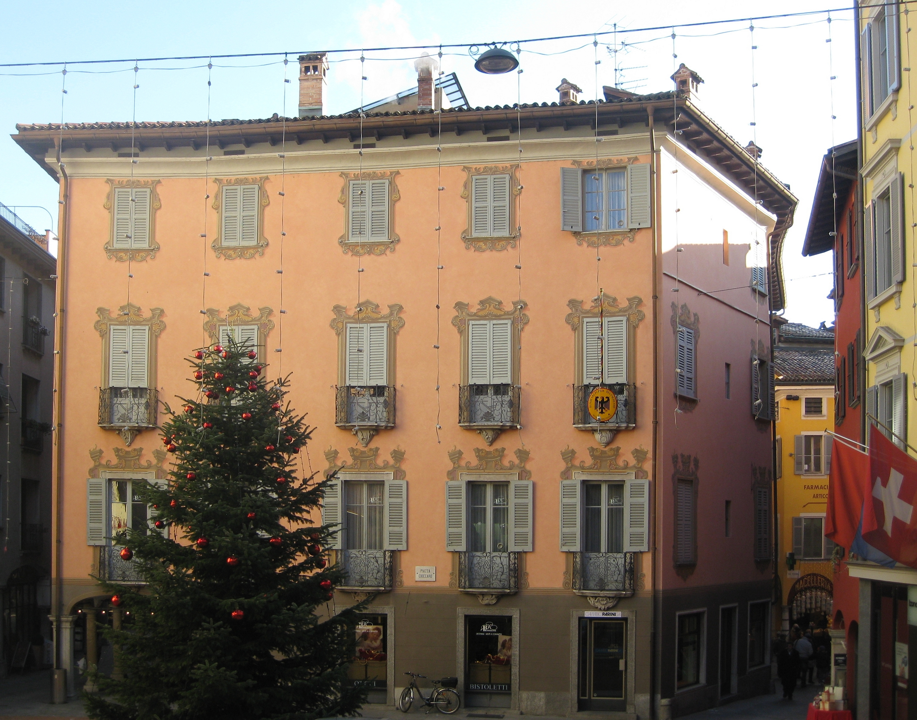 Switzerland, Lugano: townhouse; habitant e.g. german honorary consul Bianca Maria Brenni-Wicki